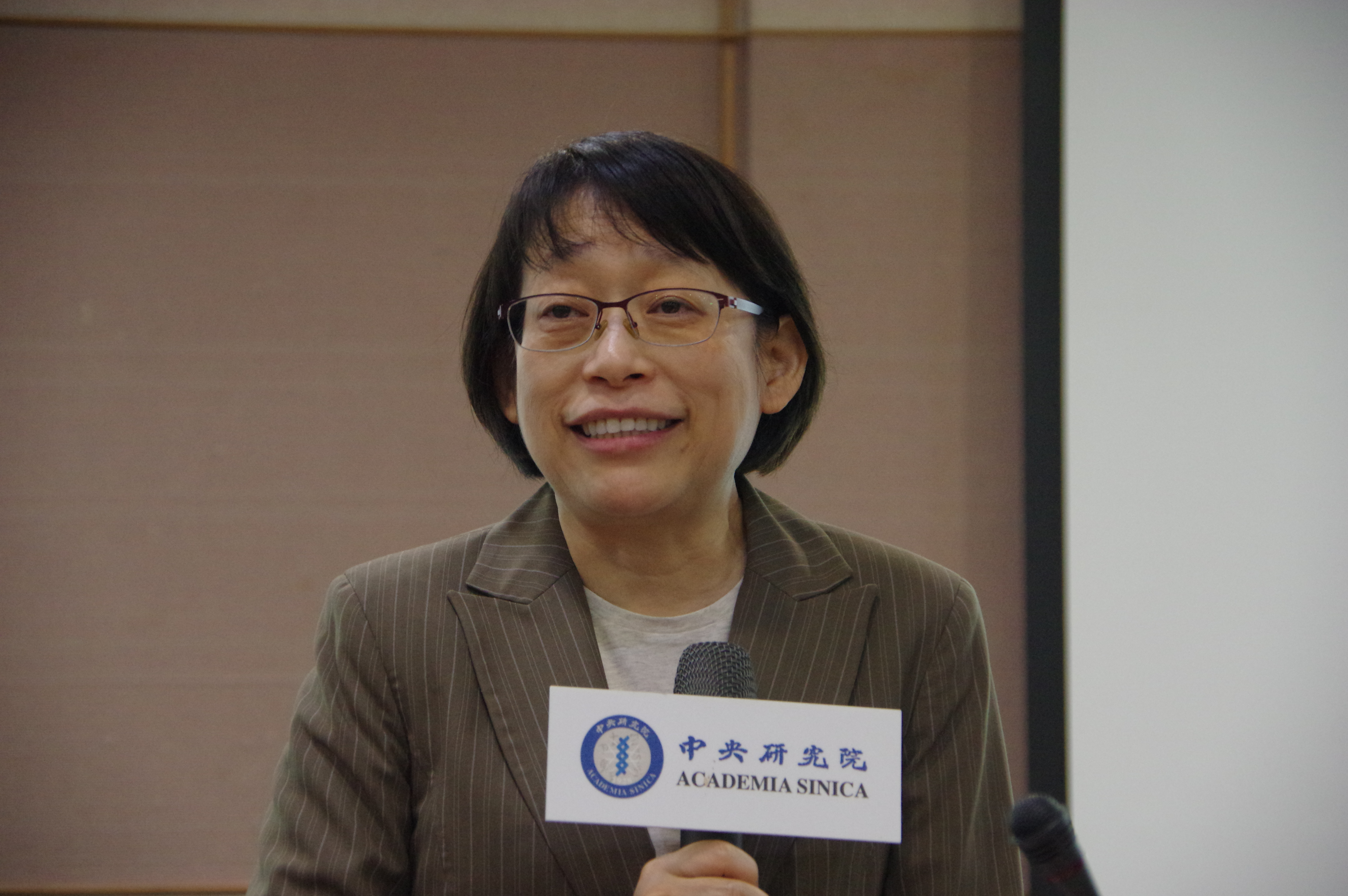 Taiwanese physicist and vice president of Academia Sinica, Mei-Yin Chou